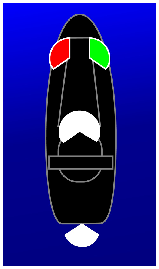 Navigation lights